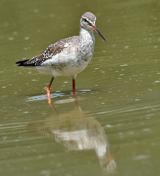 Spotted Redshank (Tringa erythropus) at Keoladeo National Park, Bharatpur, Rajasthan, India.